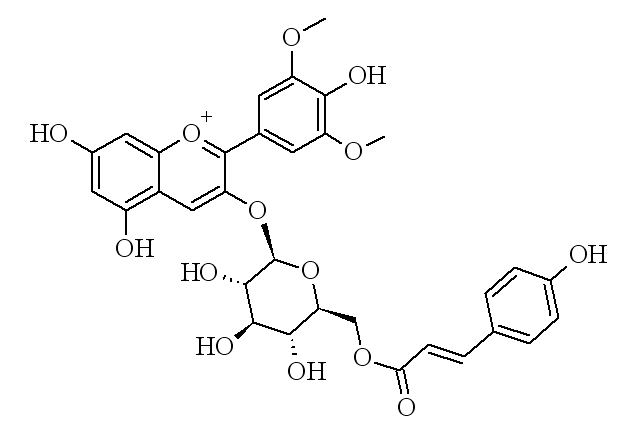 Chemical structure of malvidin 3O-coumaroyl glucoside